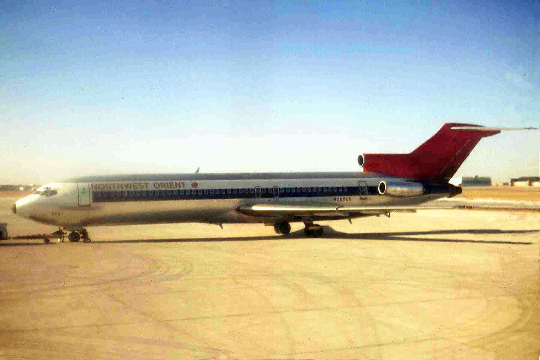 Not a good photo but it does have Northwest Orient titles! Taken from the window of a B.Cal B707-320C making at fuel stop at Winnipeg (YWG) en-route London-Gatwick (LGW) / Los Angeles (LAX)